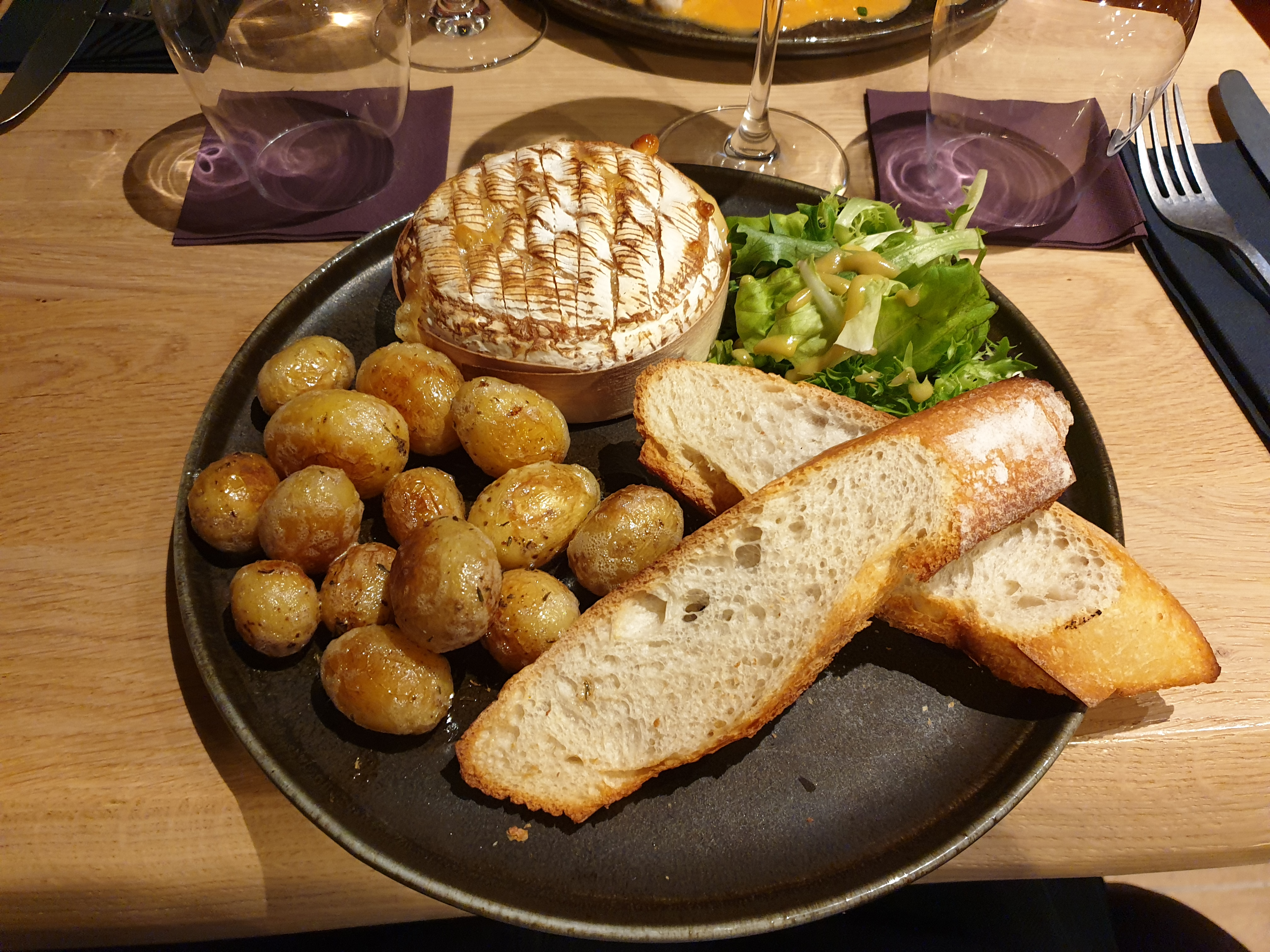 Roast camember with its accompaniments.